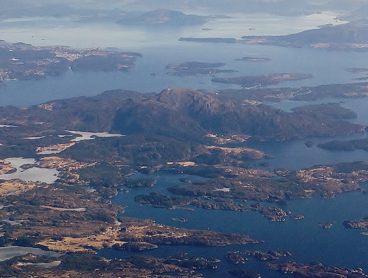 Siggjo mountain in Bømlo view towards the east. Leirvik in Stord in the background in the upper left corner.